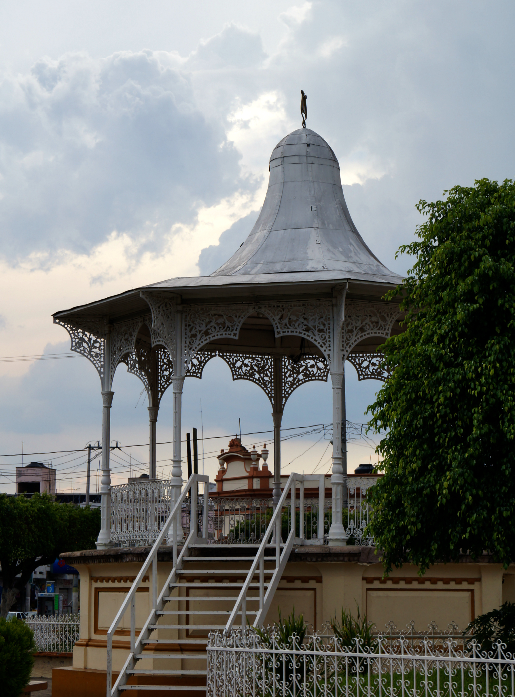 en la Plaza